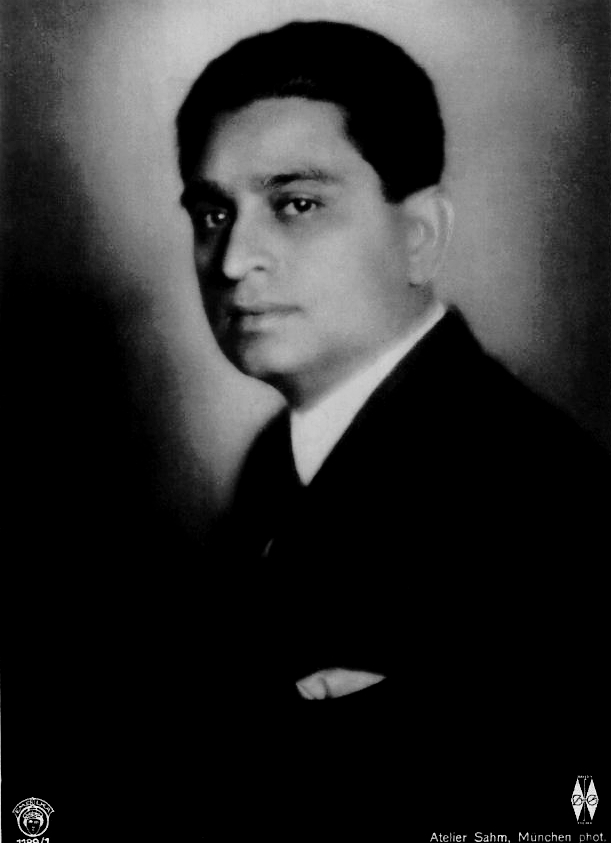 Actor-Director-Producer Himansu Rai